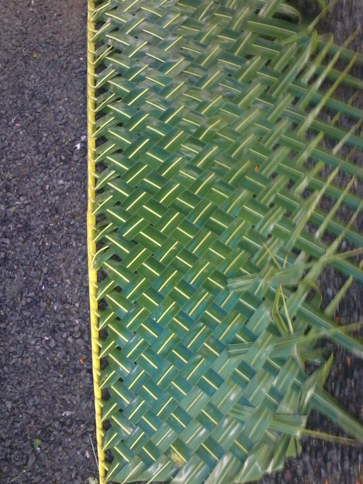 Mat made of coconut leafs